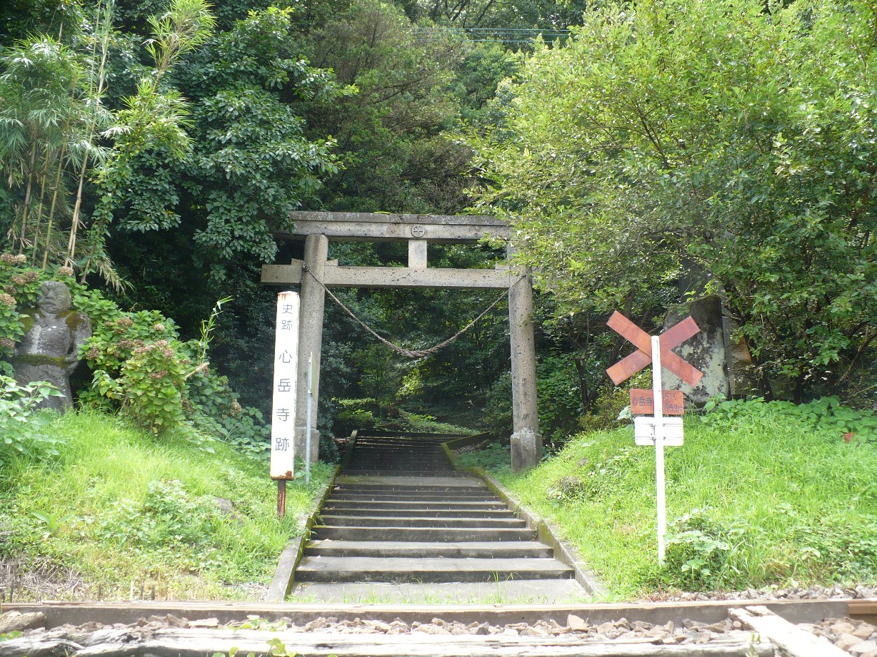 Torii of Hiramatsu shrine, Kagoshima, Kagoshim, Japan. The site is ruin of Shingakuji temple.